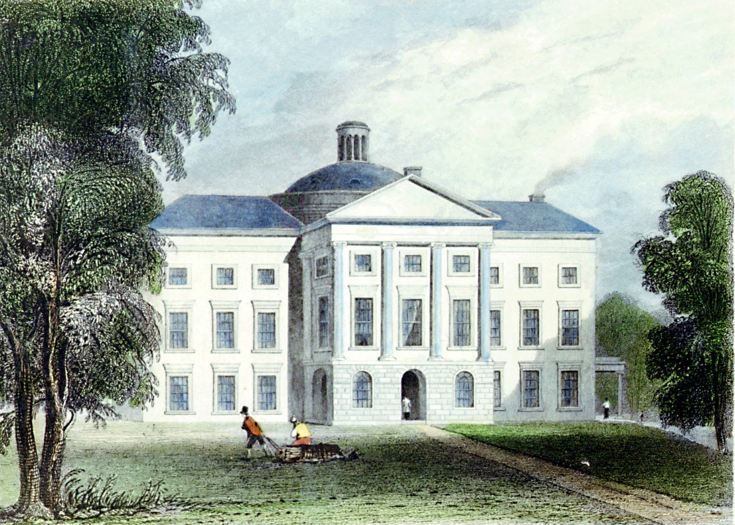 North Carolina State House (1796–1831) in Raleigh, North Carolina, Colorized drawing by William Goodacre.